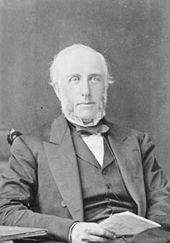 George Brown (1818 - 1880), father of Confederation.